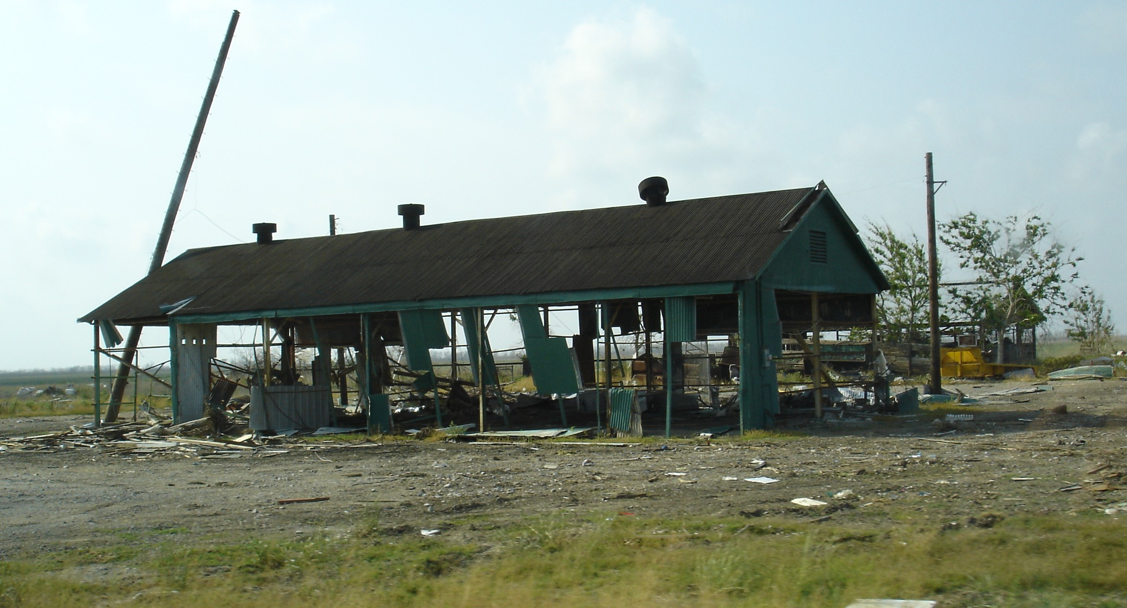 Cameron, LA showing damage from Hurricane Rita.